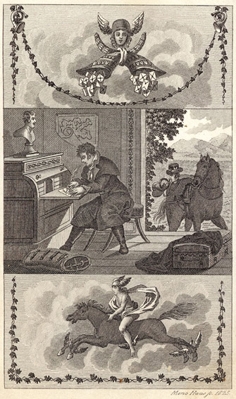 Meno Haas: Title engraving from: J. C. Vollbeding: Neuer gemeinnützlicher Briefsteller für das bürgerliche Geschäftsleben, Berlin, Amelang, 1825